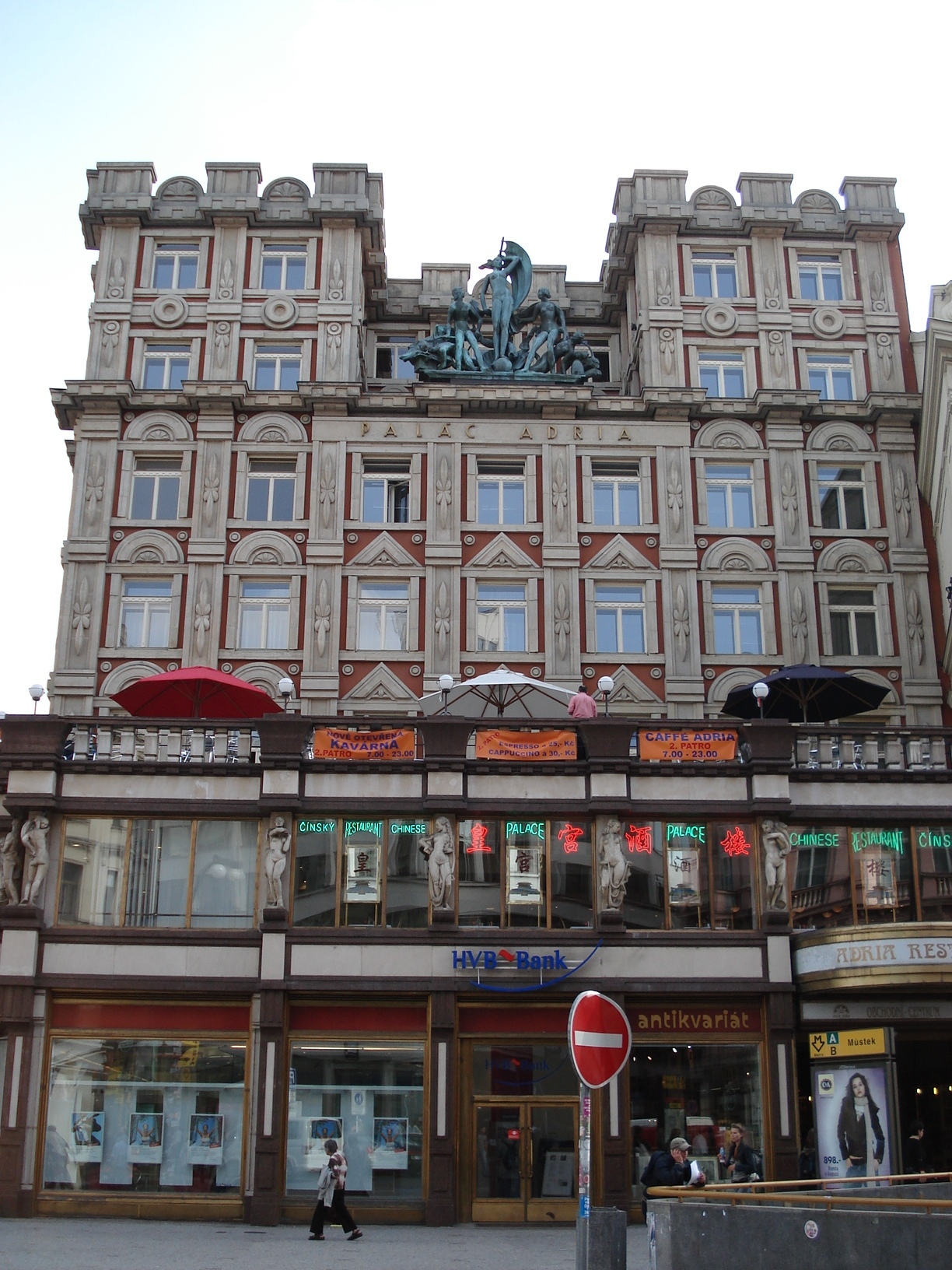 Palac Adria (originally: Riunione adriatica di sicurta Department store and Office Building), arch. Pavel Janák, Jungmanova ul. 31, Prague. built 1922-25.